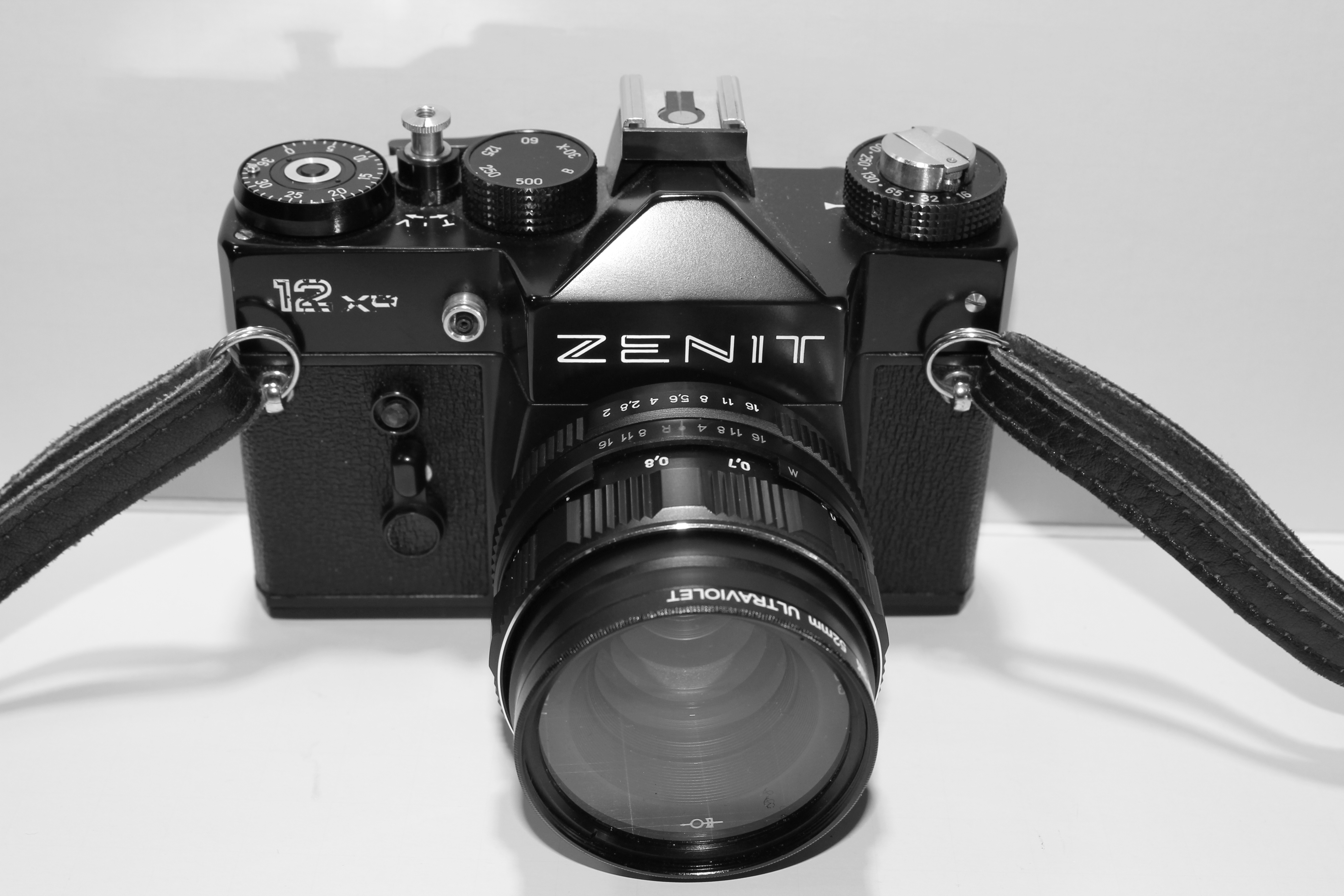 A Soviet made Zenit 12XP 35mm camera (date of manufacture - 1986). It requires two 386 alkaline cells to power the light meter otherwise is completely mechanical and useful for driving nails. It came with a screwmount Helios 58mm lens. Made to last, this battered camera is still in use. Any Pentax or Mamiya screwmount lens will work on it.